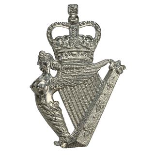 Royal Irish Regiment Cap Badge